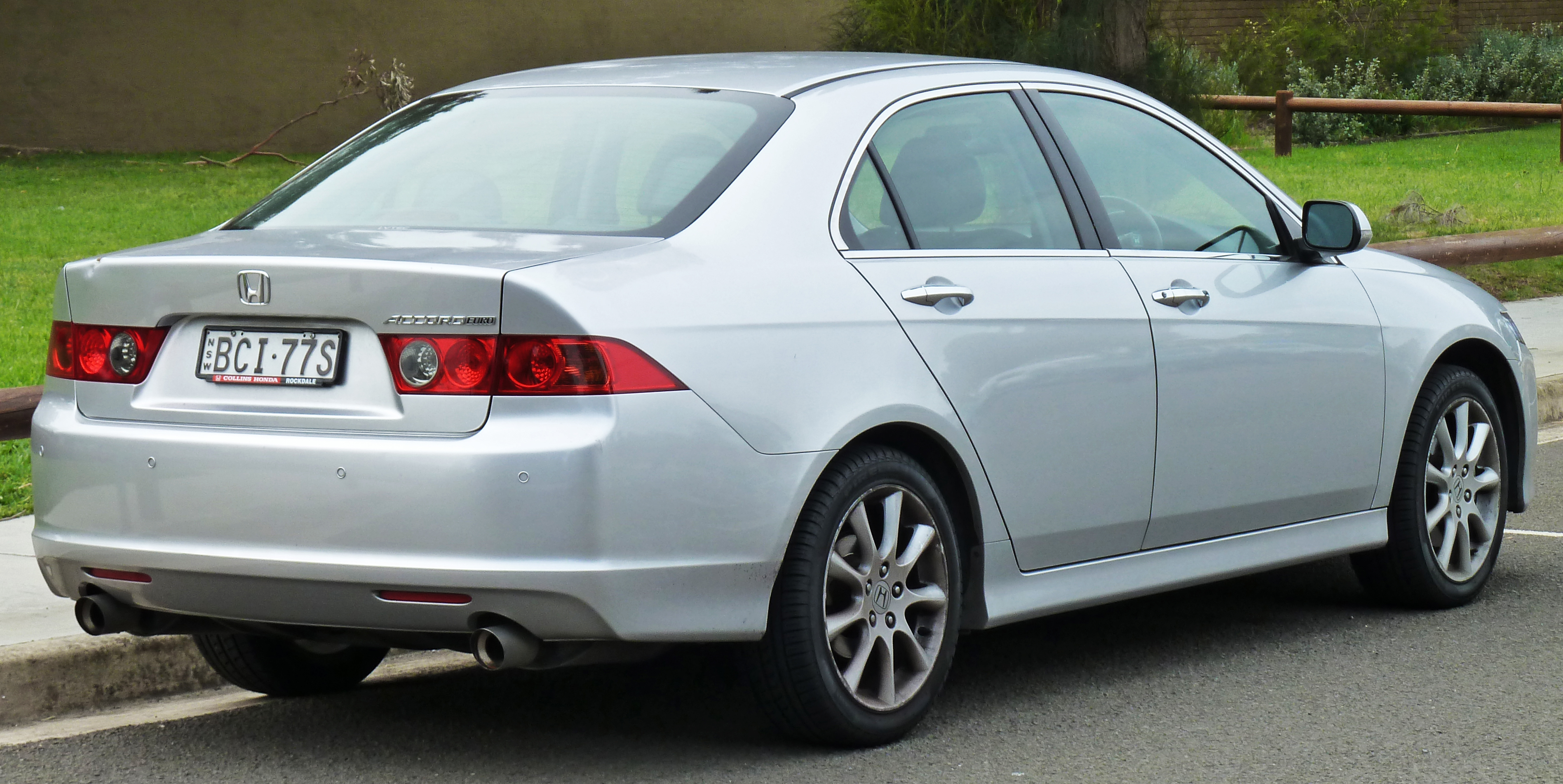 2007 Honda Accord Euro Luxury sedan. Photographed in Sylvania Waters, New South Wales, Australia.